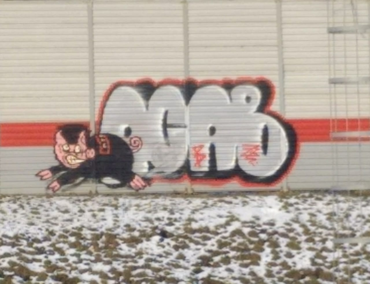 Graffiti ACAB on MCC, Moscow